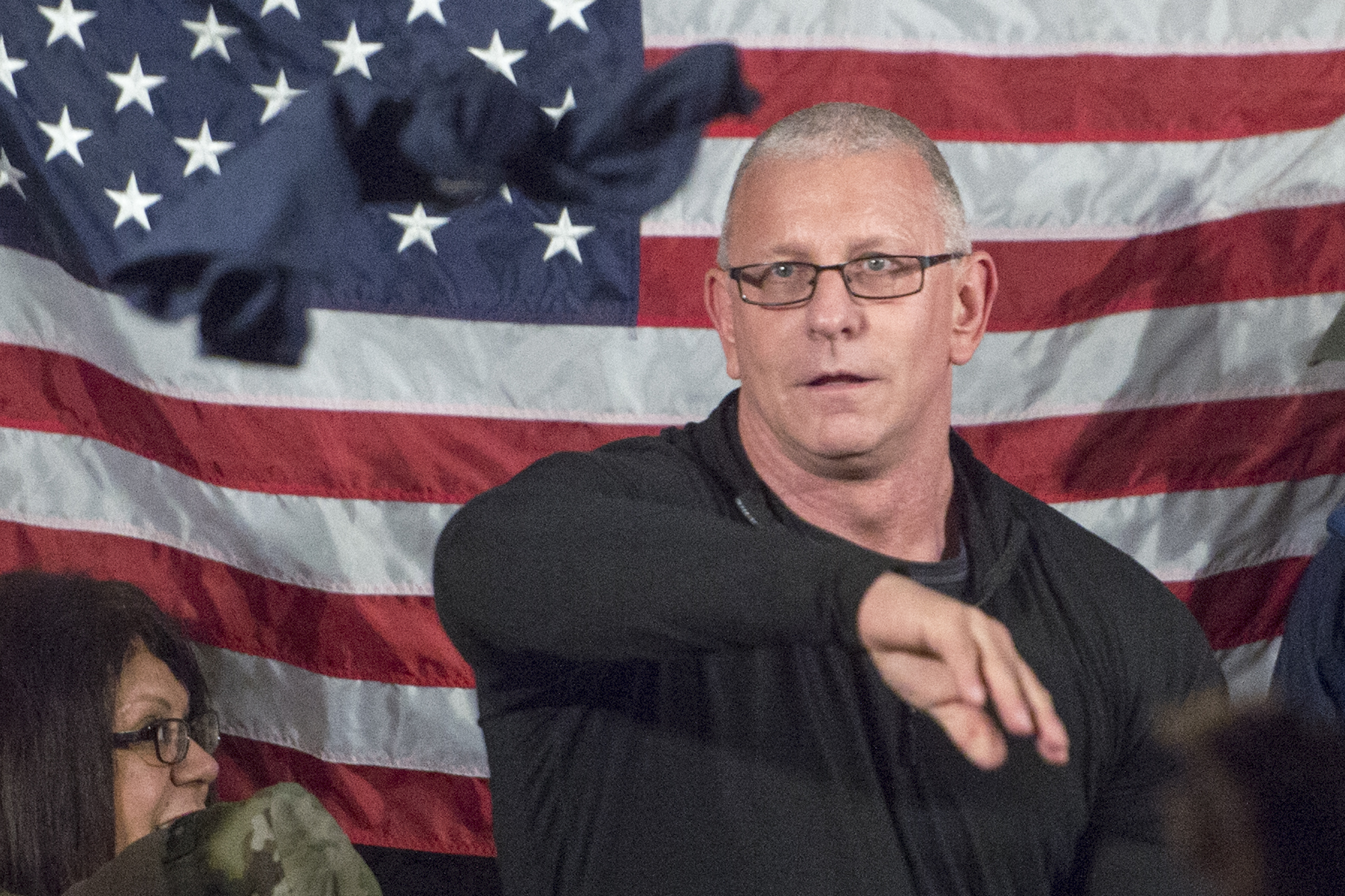 Marine Gen. Joseph F. Dunford, Jr., chairman of the Joint Chiefs of Staff, and Command Sgt. Maj. John W. Troxell, Senior Enlisted Advisor to the Chairman of the Joint Chiefs of Staff, meet with deployed service members at bases across Iraq, Dec. 25, 2016. Dunford, along with USO entertainers, visited service members who are deployed from home during the holidays at various locations across the globe. This year’s entertainers were Chef Robert Irvine, Wrestler Gail Kim, Musicians Kellie Pickler and Kyle Jacobs, and Roastmaster Jeff Ross. (DoD photo by Navy Petty Officer 2nd Class Dominique A. Pineiro/Released)